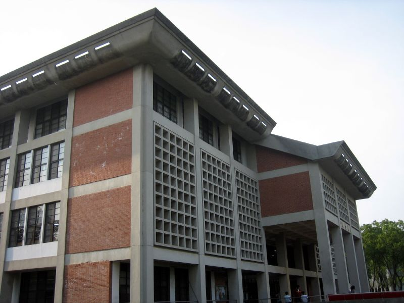 Taichung Day One (from Flickr site)